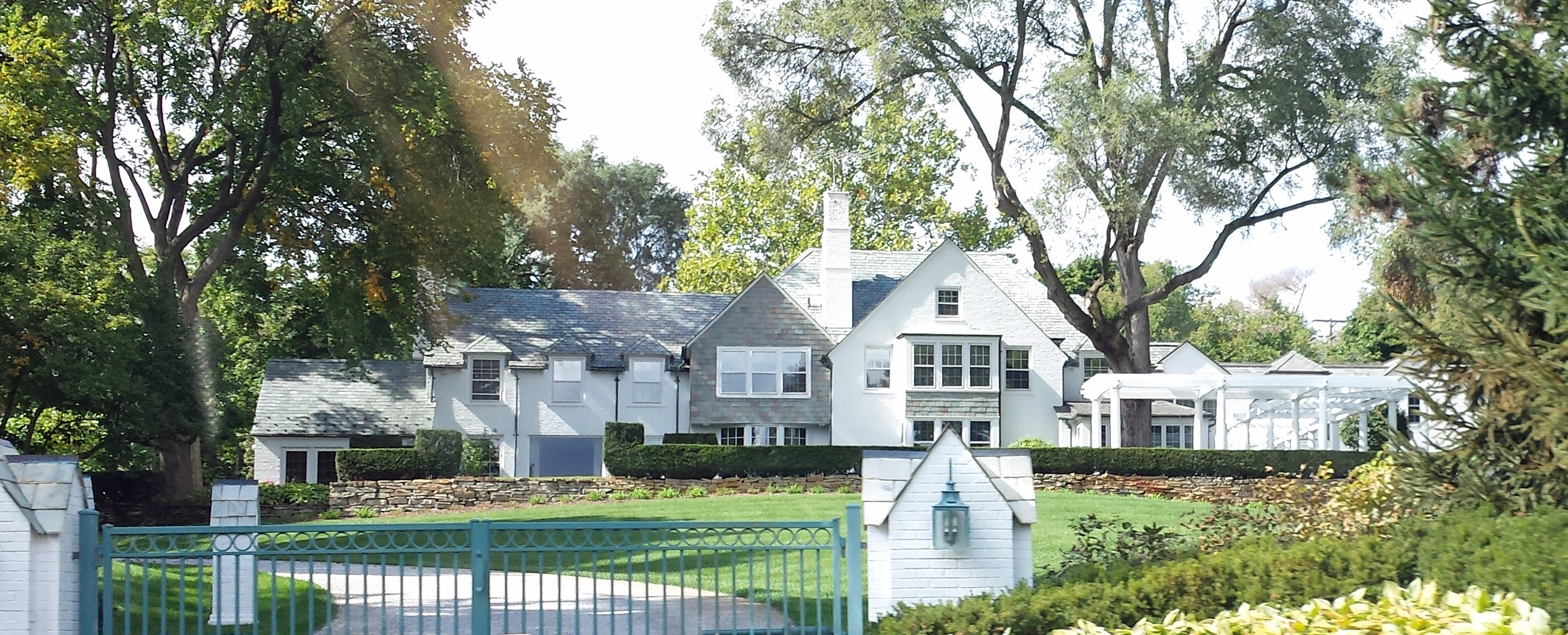 Home of Charles G. Welch by Hugh T. Keyes (1938)